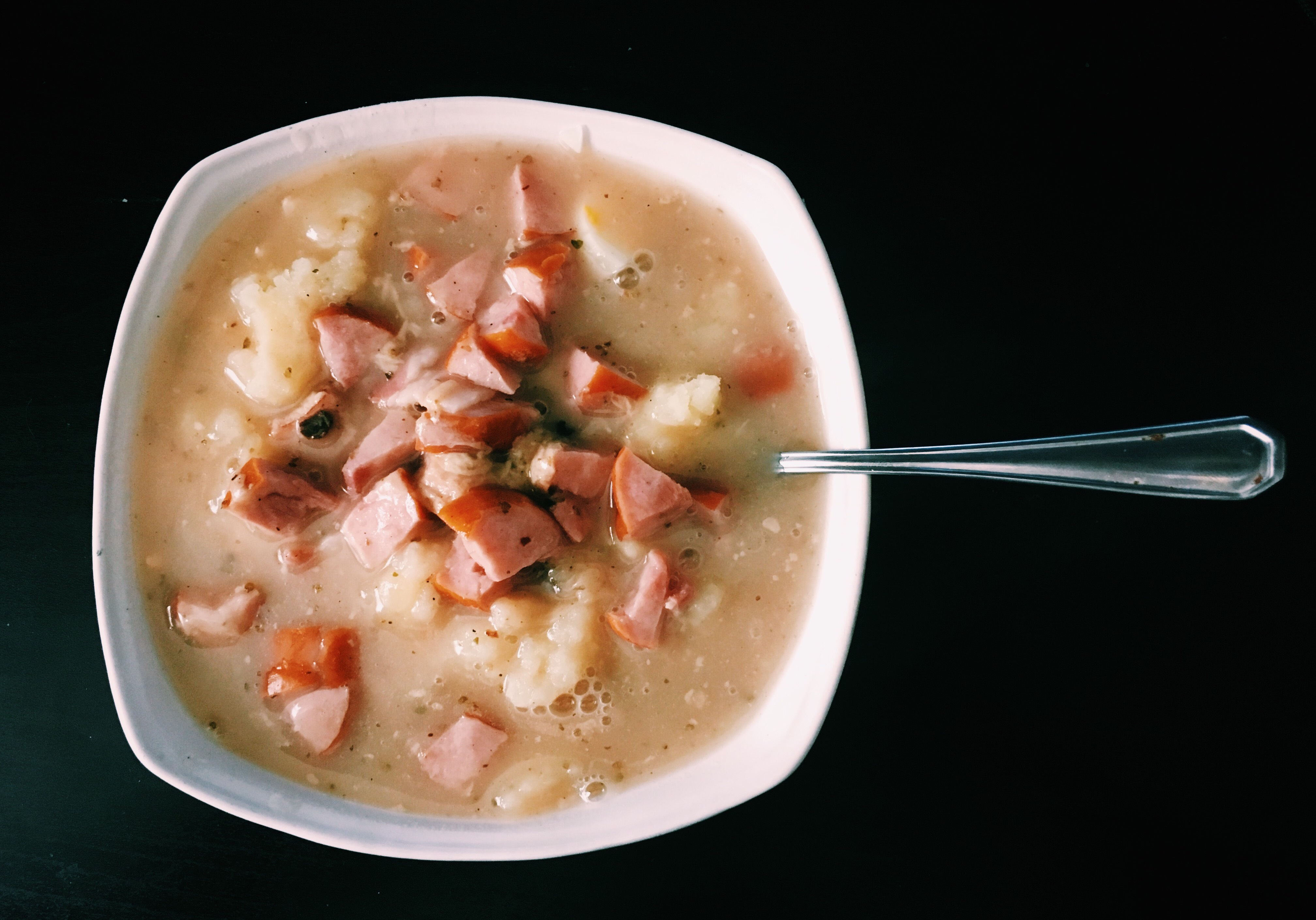 White borscht.